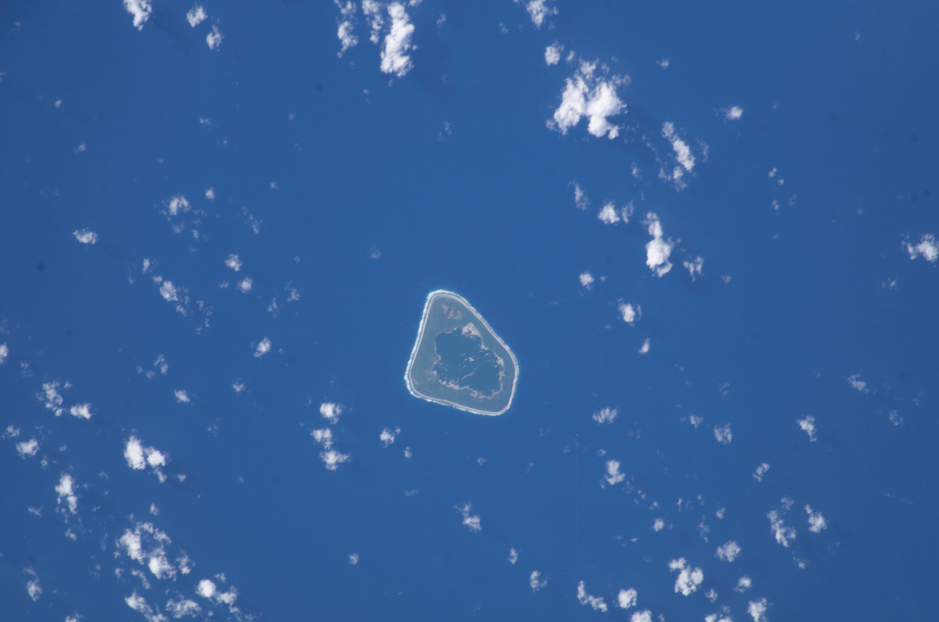 NASA Astronaut Image of Manra Island (Phoenix Islands, Kiribati) in the Pacific Ocean